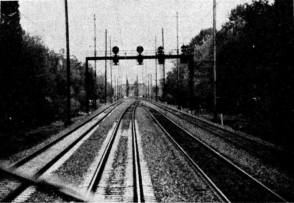 Gunpow interlocking, where the 1987 Maryland train collision took place.